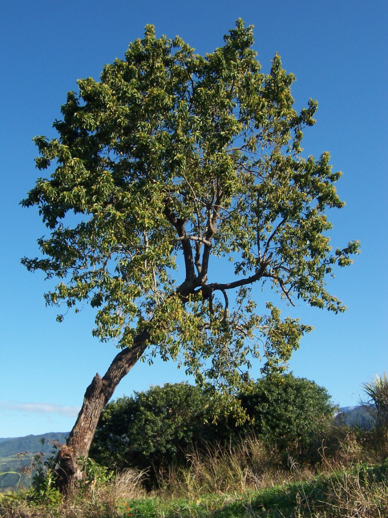 Avocado tree (Persea americana) - individual, Réunion island